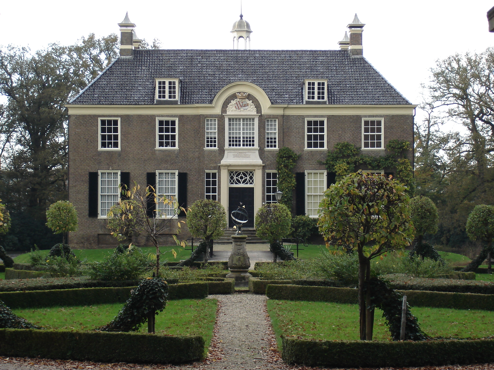 Havezathe (fortified house) Den Berg, Dalfsen, Overijssel, the Netherlands